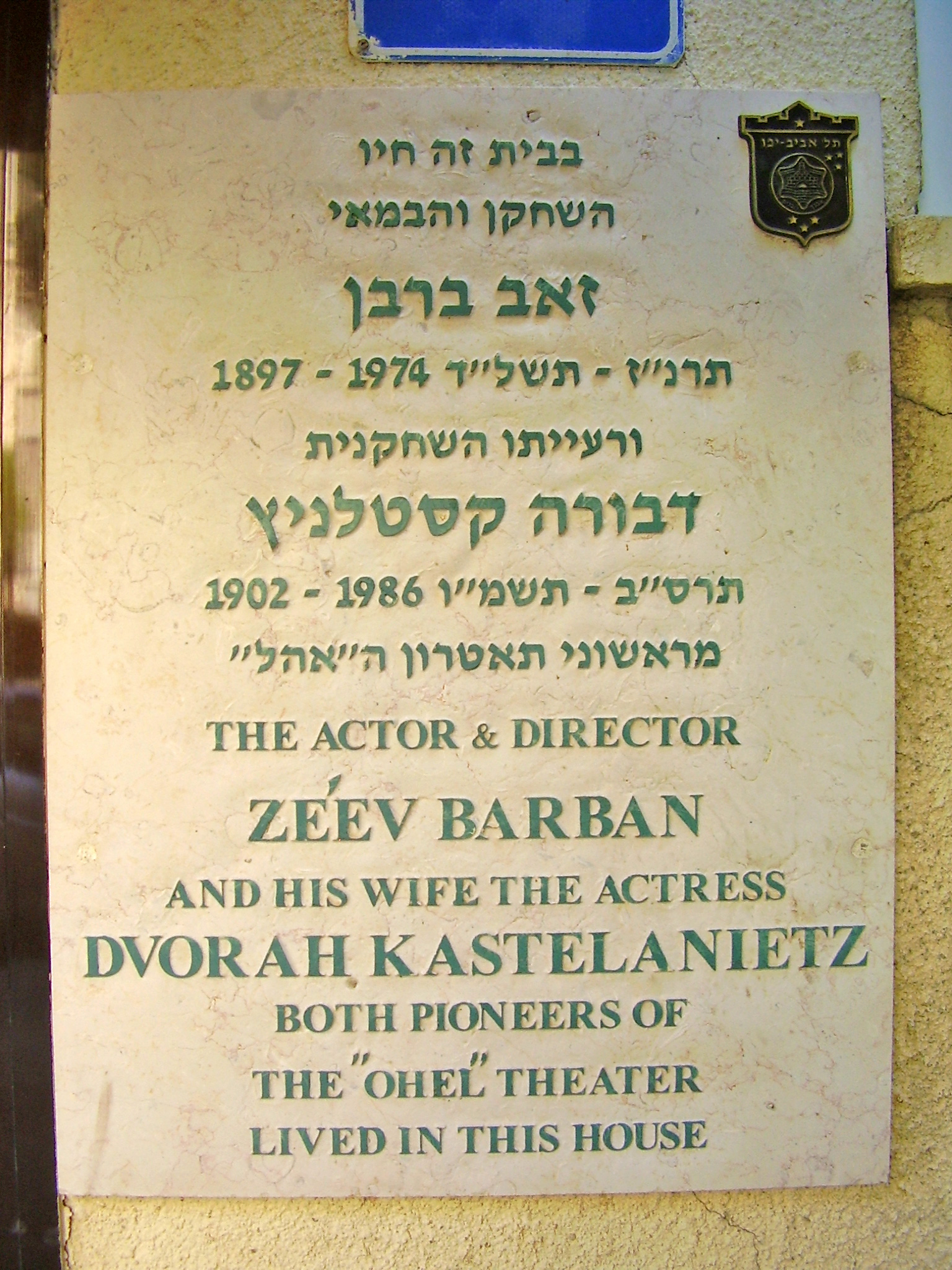 memorial plaque on the actors barban+kastelanietz house in tel aviv לוחית זיכרון על ביתם של השחקנים זאב ברבן ואשתו דבורה קסטלנץ ברח' פרוג 20 בתל אביב